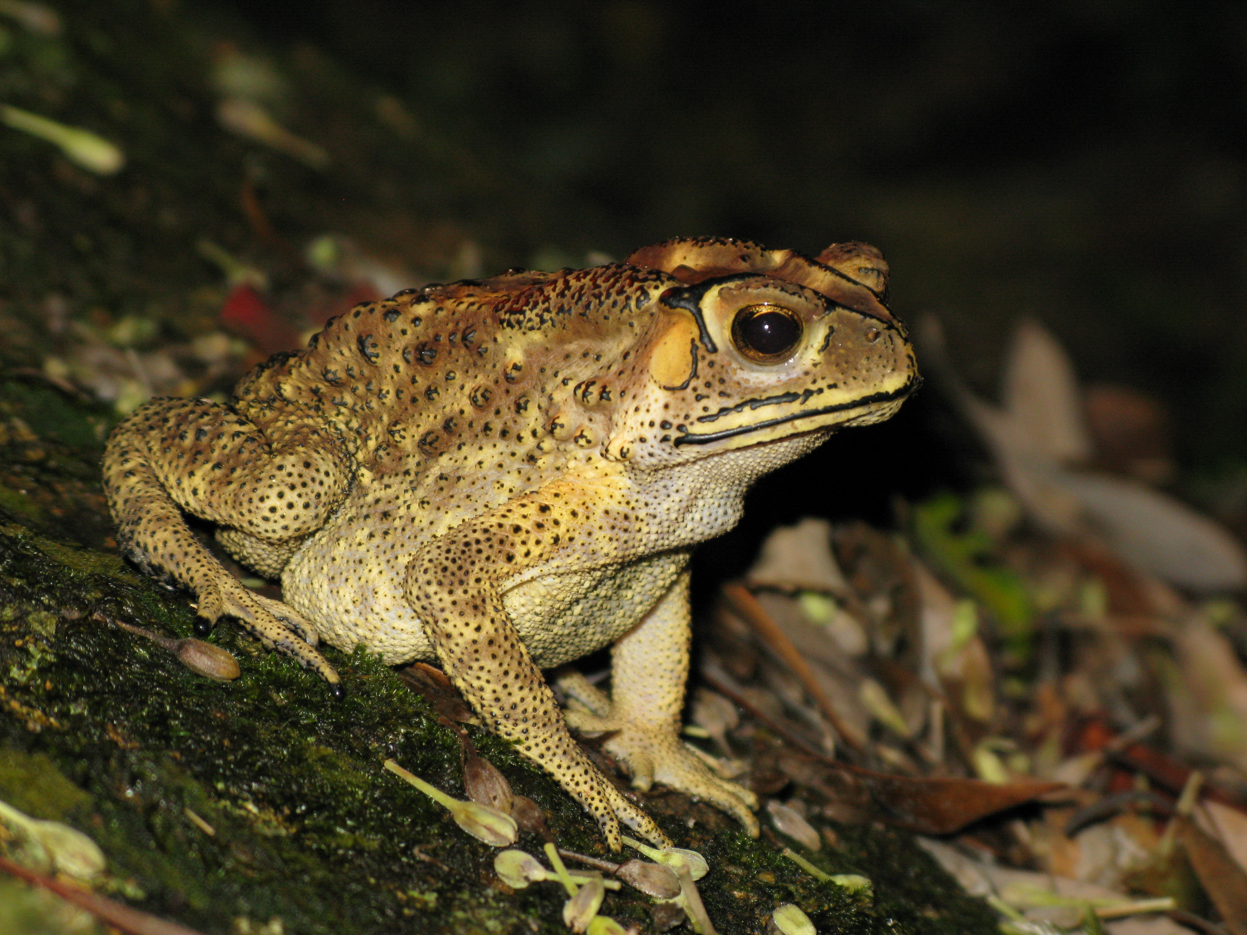 A Duttaphrynus melanostictus(Spectacled toad) found in Hong KongTai Po Kau Special Area during night time